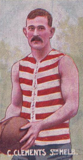 Cigarette card of Charles Clements from the Sniders & Abrahams 1906 series